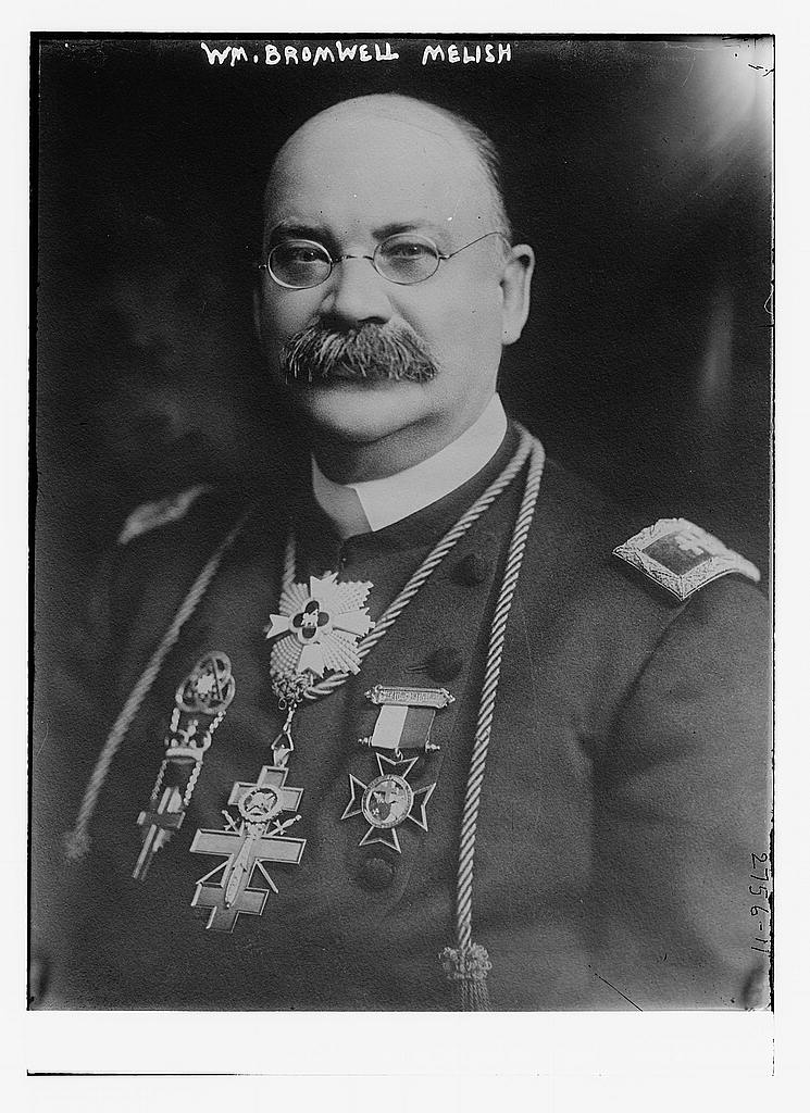 Bain News Service,, publisher. William Bromwell Melish [no date recorded on caption card] 1 negative : glass ; 5 x 7 in. or smaller. Notes: Title from unverified data provided by the Bain News Service on the negatives or caption cards. Forms part of: George Grantham Bain Collection (Library of Congress). Format: Glass negatives. Repository: Library of Congress, Prints and Photographs Division, Washington, D.C. 20540 USA, General information about the Bain Collection is available at Persistent URL: Call Number: LC-B2- 2756-11